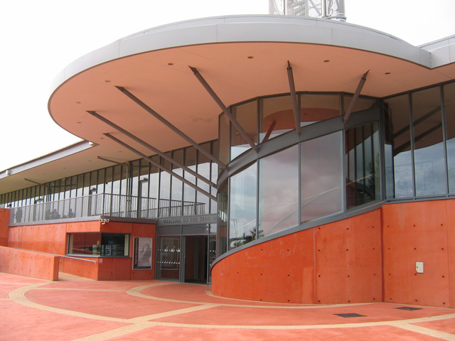 Bovington Tank Museum The new entrance to the museum. The new wing was officially opened by the Queen on June 11th 2009.